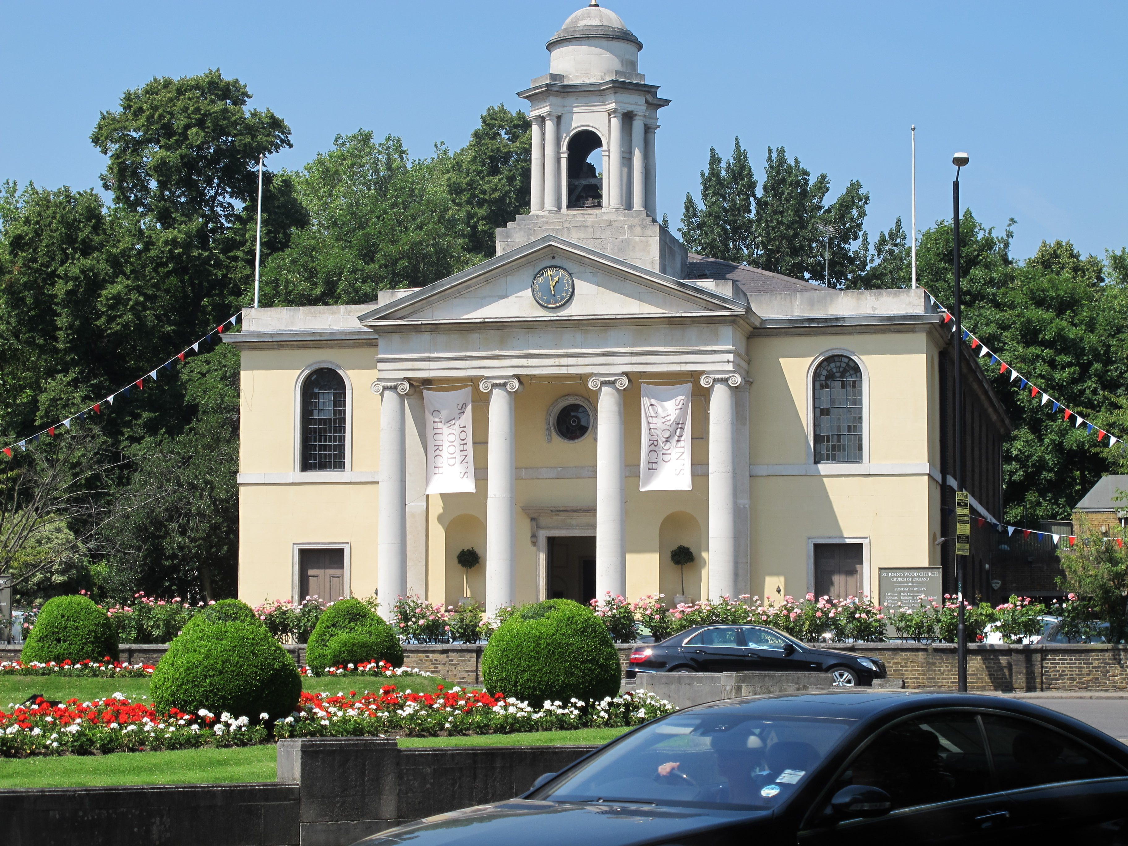 The facade of St John's Wood Church in Summer, viewed across Lord's Roundabout.